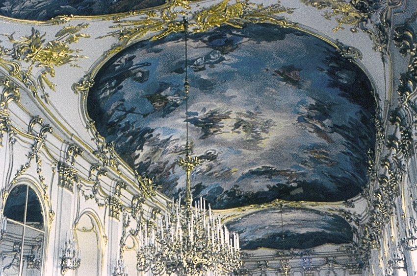 The ceiling of Schönbrunn's Grand Gallery.